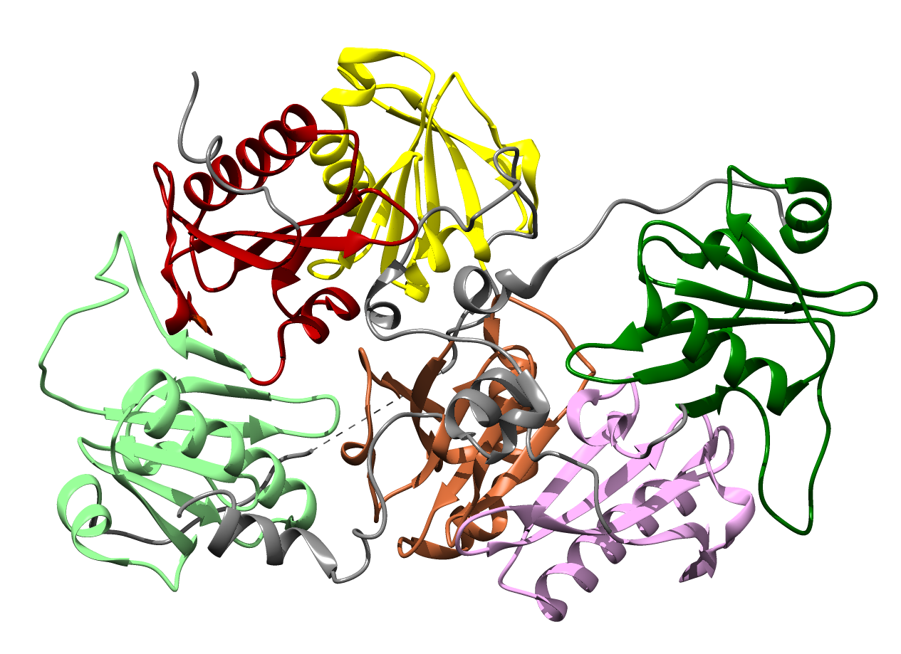 Render of cellular form of human Gelsolin from PDB entry 3FFN. Domains 1-6 are colored red, sea green, yellow, lavender, dark green, and brown respectively